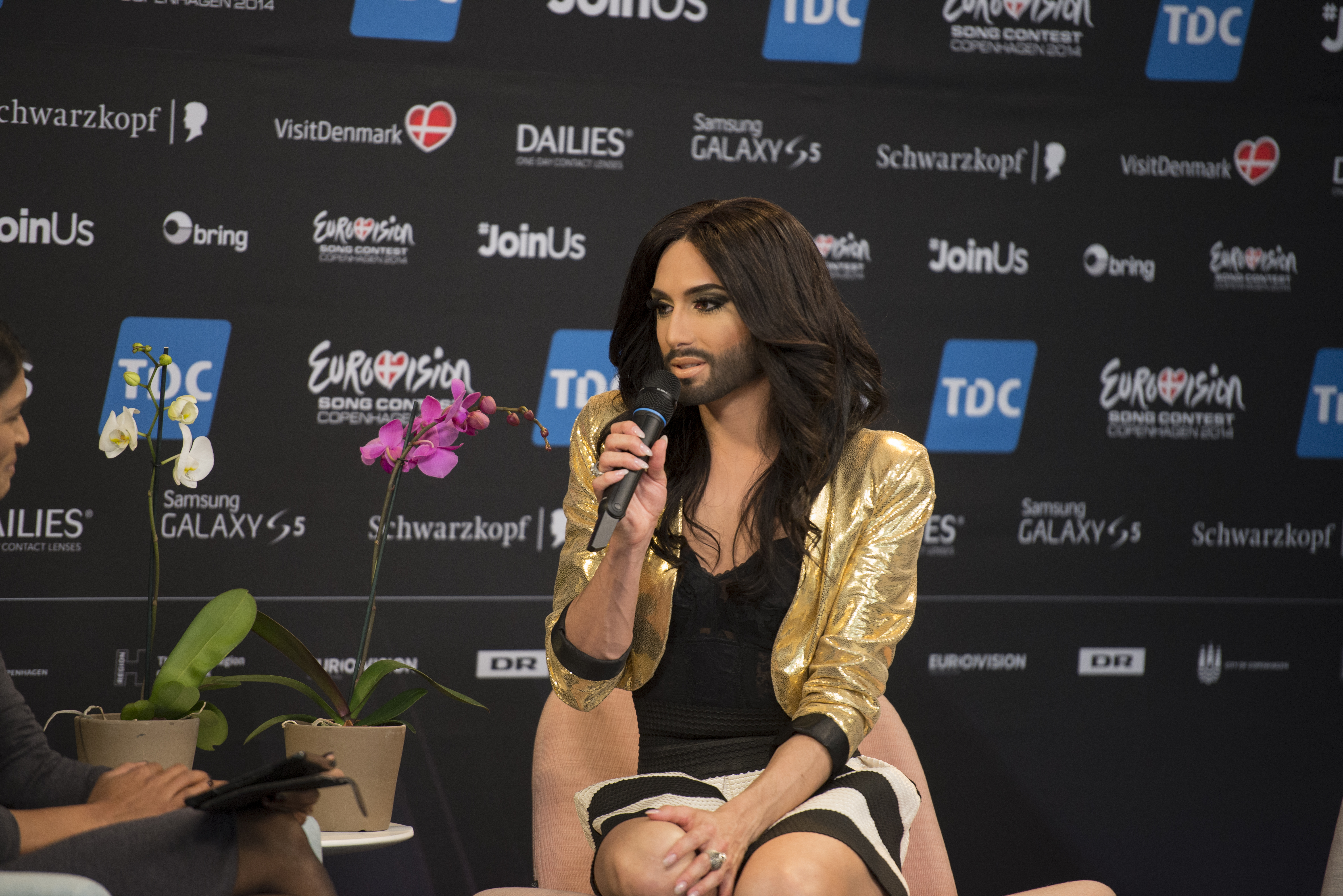 Conchita Wurst at a Meet & Greet during the Eurovision Song Contest 2014 Copenhagen. (Help translate this text)